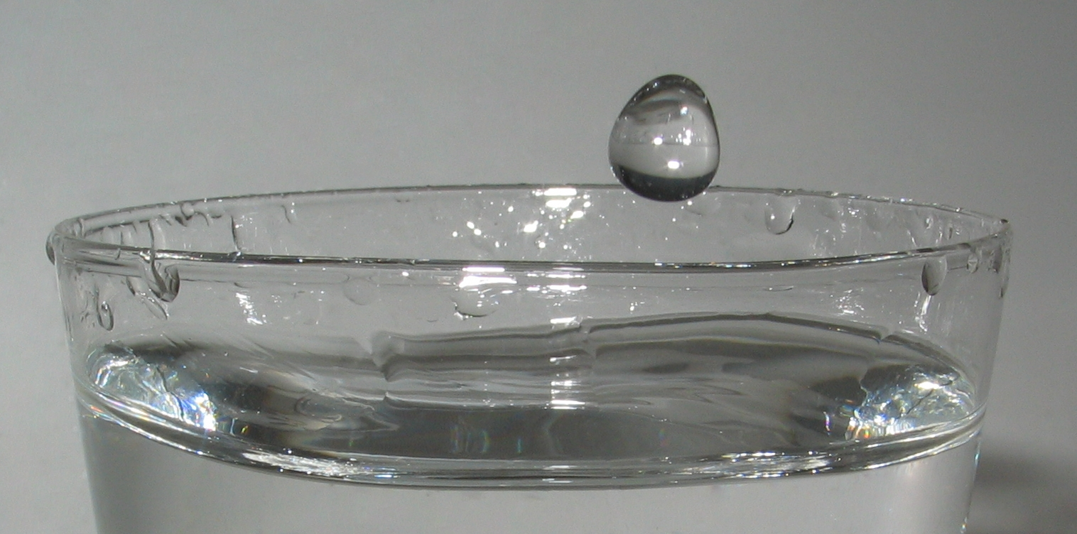 A drop of water before its impact. Pictute taken (on 13 Feb 2006) and uploaded by Roger McLassus. Universal symbol for the drinking water.